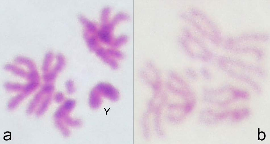 Giemsa-stained Drosophila melanogaster mitotic metaphase chromosomes seen with a light microscope. A is male (Y-chr marked), b is female. Chromosomes clockwise from left in both images: autosome pairs 2 and 3 (order unknown), X (& Y). Chromosome pair 4 is in the middle of the radial metaphase plate.